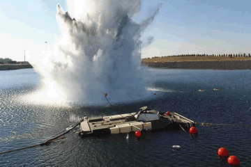 Test Bed be evaluated